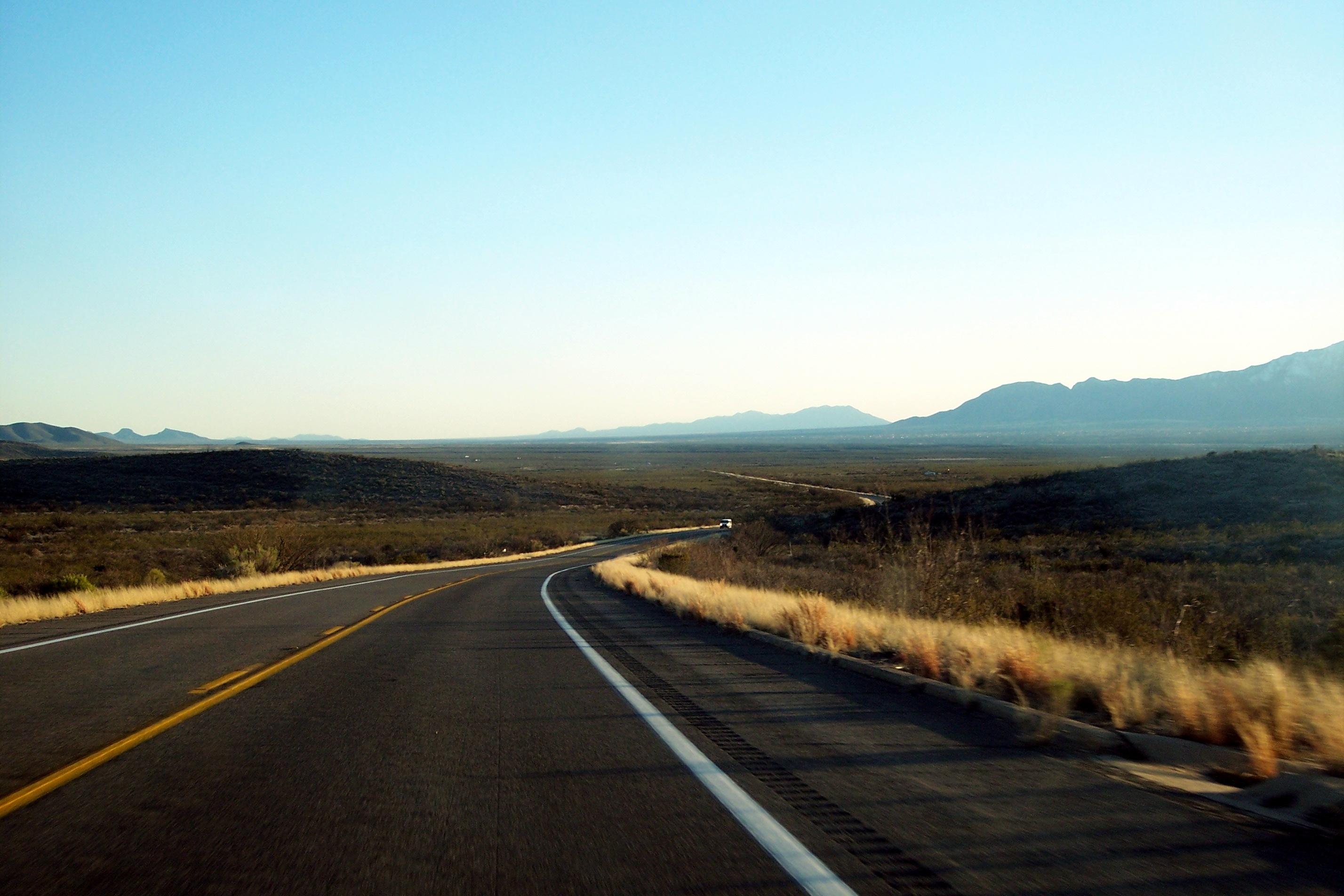 Arizona State Road 80 between Tombstone and Bisbee, seen towards south.